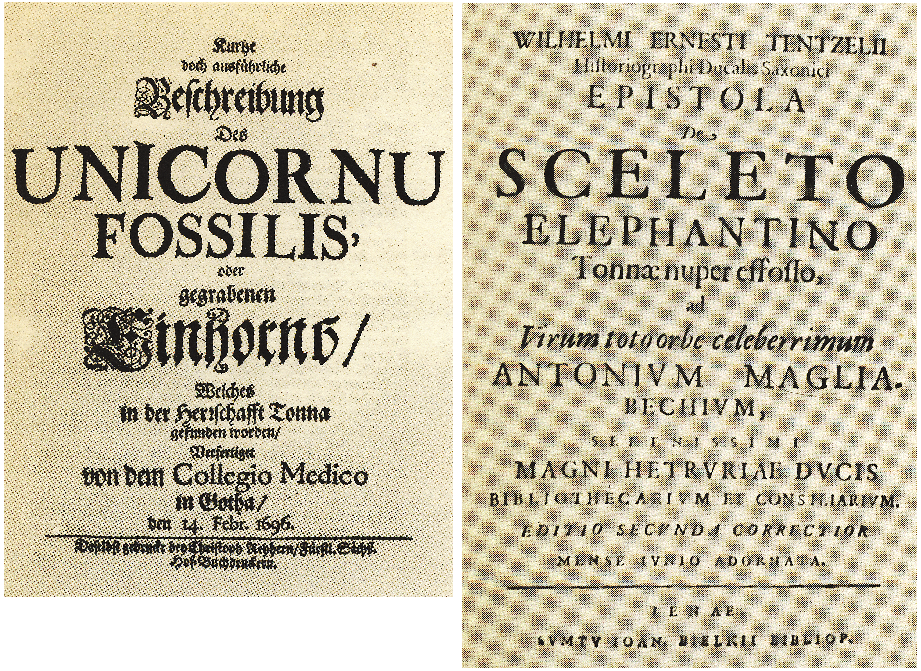 first description of a straight-tusked elephant by W. E. Tentzel (1659-1707) (right) and the opinion of the Collegium Medicum of Gotha (left), both 1696